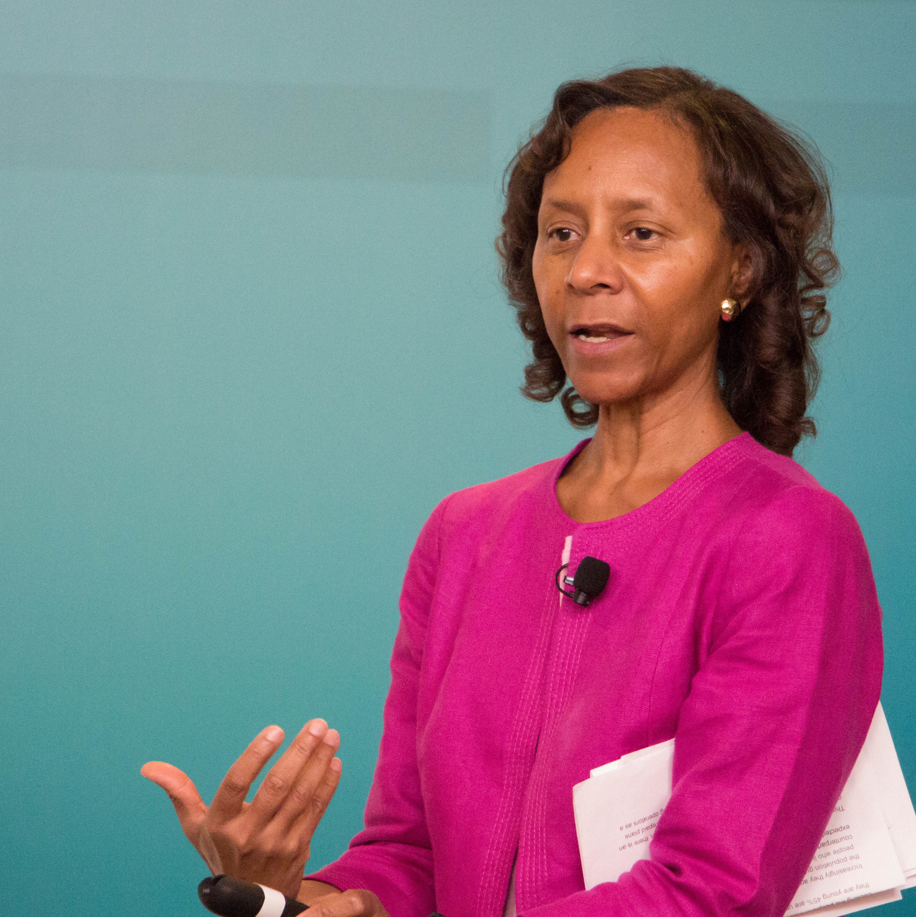 Marian Croak, VP Access Strategy & Emerging Markets, Google Inc.